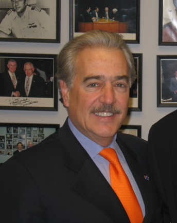 Andrés Pastrana Arango, former president of Colombia.